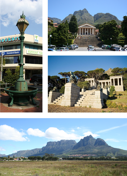 Top left: Victorian era cast iron Fountain at the historic centre of Rondebosch. Top right: University of Cape Town upper campus. Centre right: Rhodes Memorial, Cape Town, South Africa (Picture taken by me, Don Bayley, on 28 November 2005. Donated to public domain). Bottom: Rondebosch Common